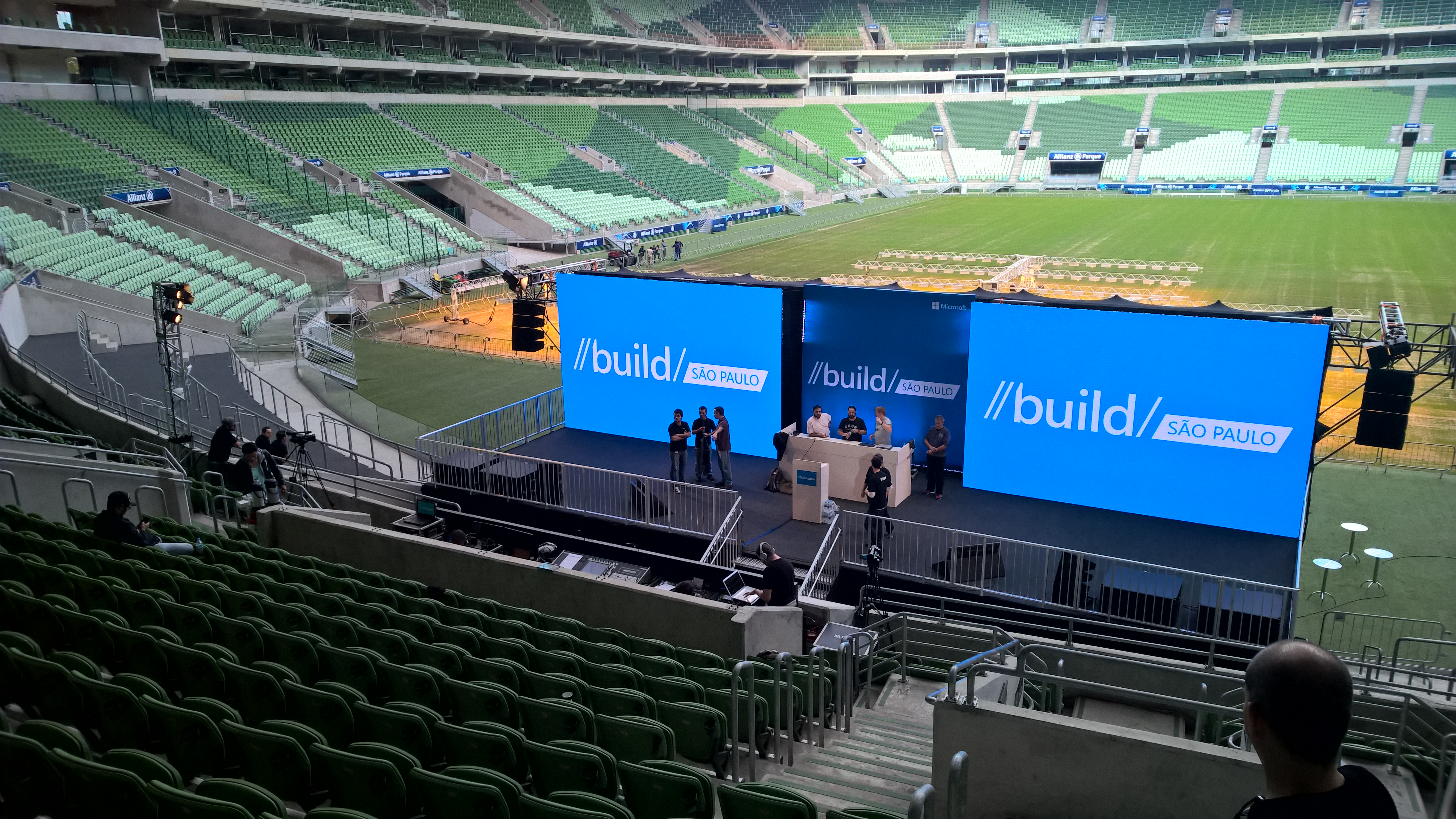 Microsoft Build tour 2015 at Allianz Parque in Sao Paulo, Brazil